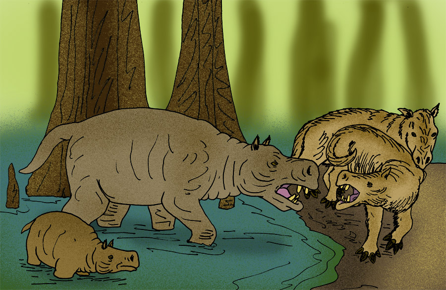 A cow and calf of the European anthracothere Anthracotherium magnum in comparison with a pair of the anthracothere Elomeryx armatus (C) Stanton F. Fink